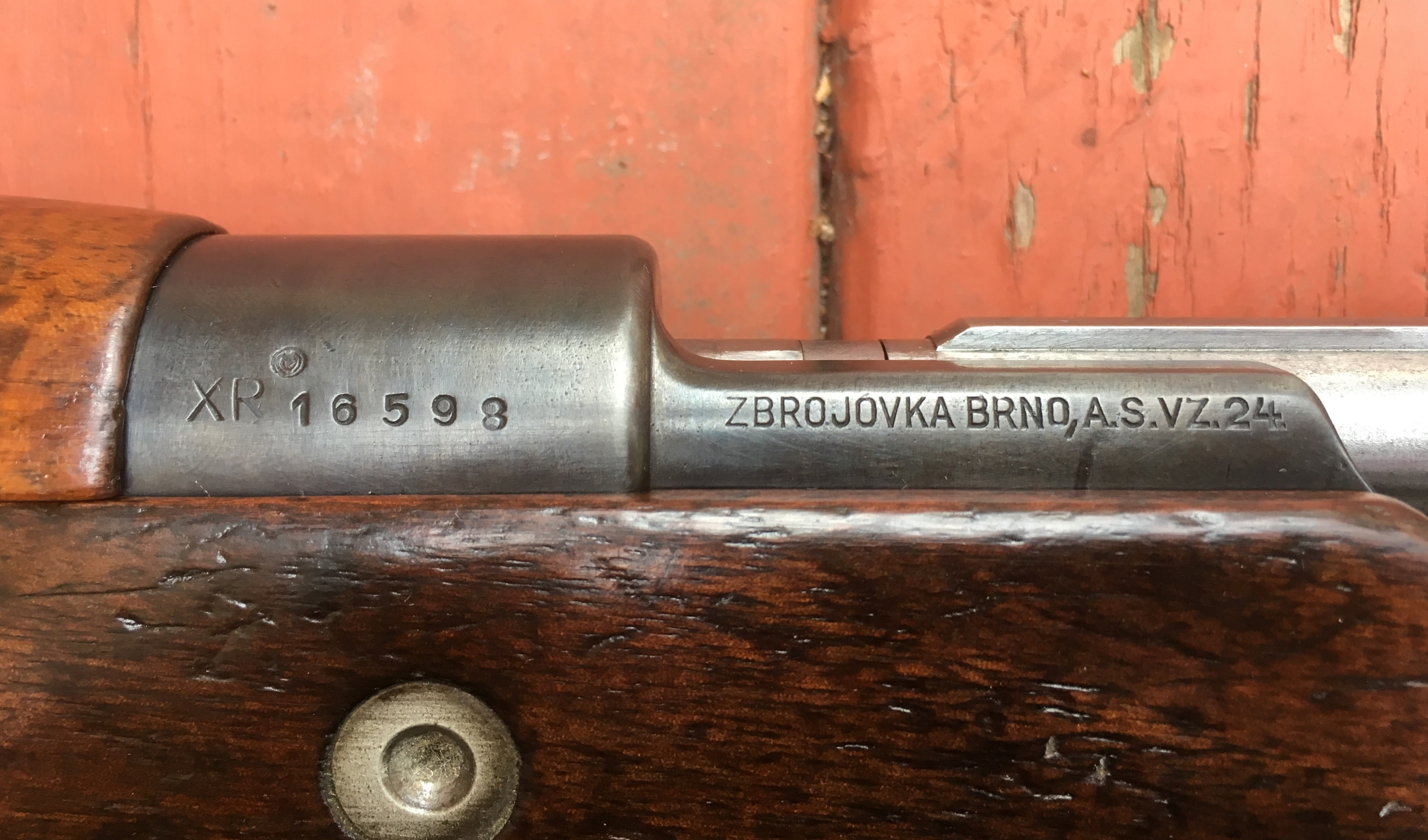 The left side of a Romanian-contract vz. 24 receiver, showing the serial number and receiver markings.